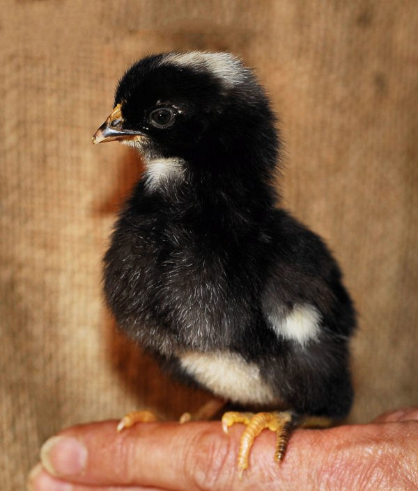 Barred Rock chick